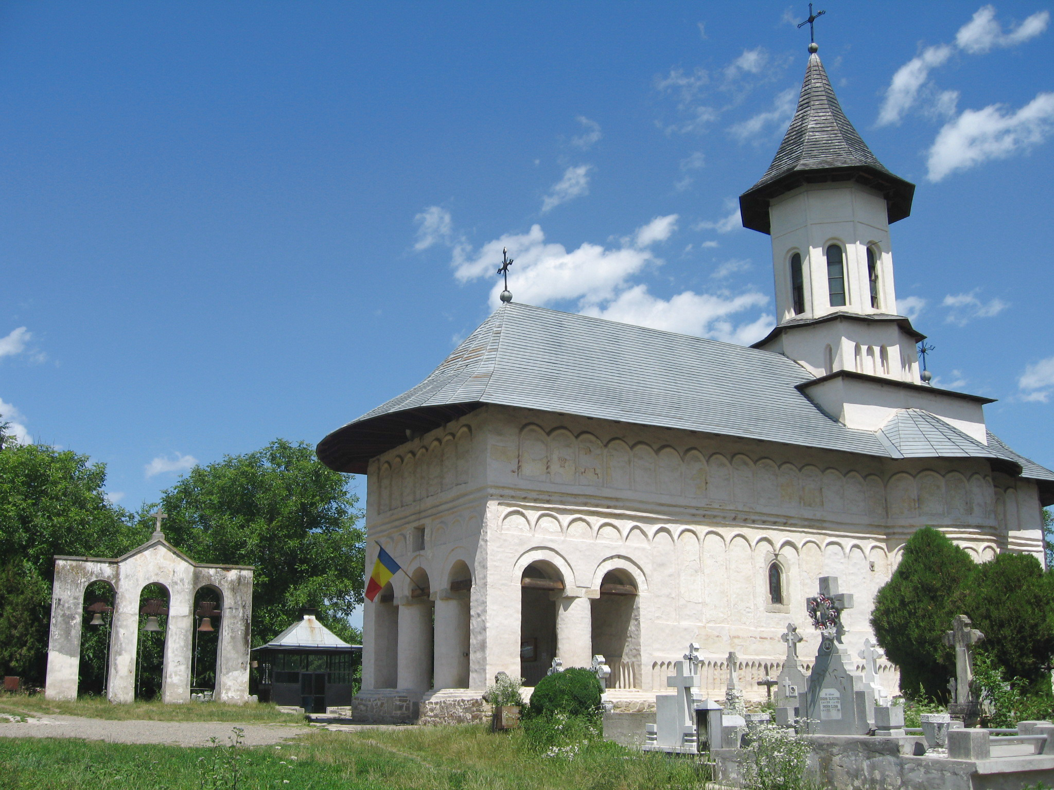 Assumption Church in Iţcani, Suceava.